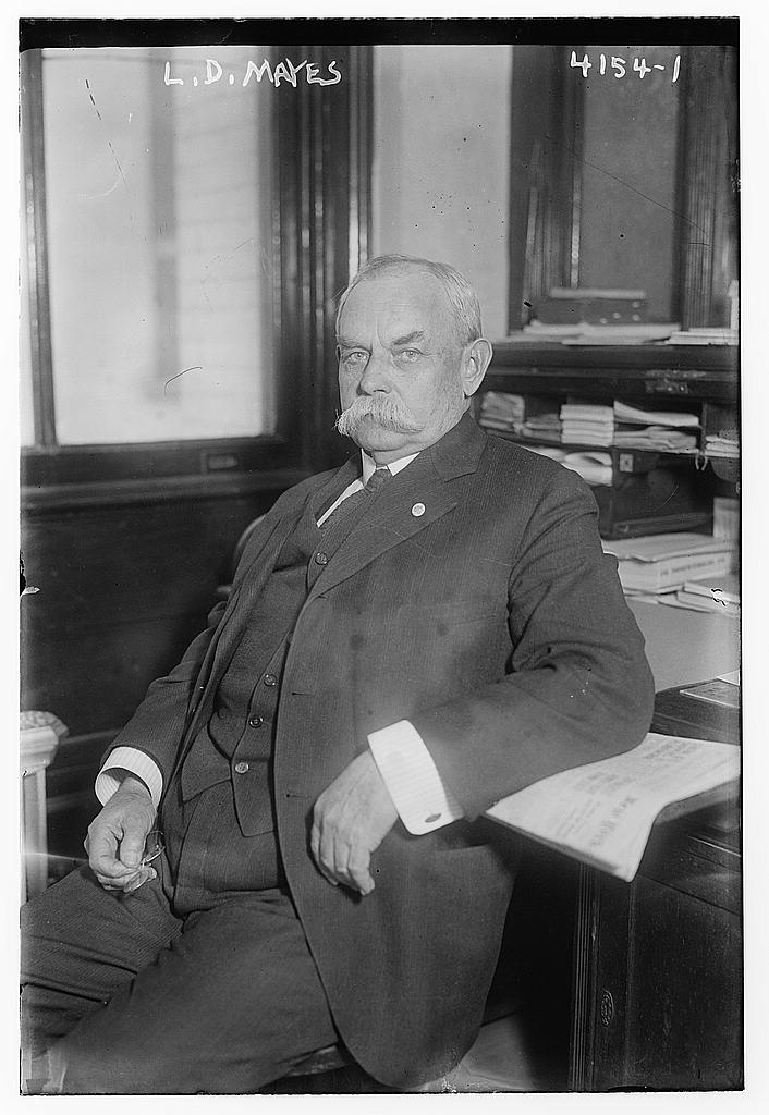 Lorenzo Dow Mayes in 1917